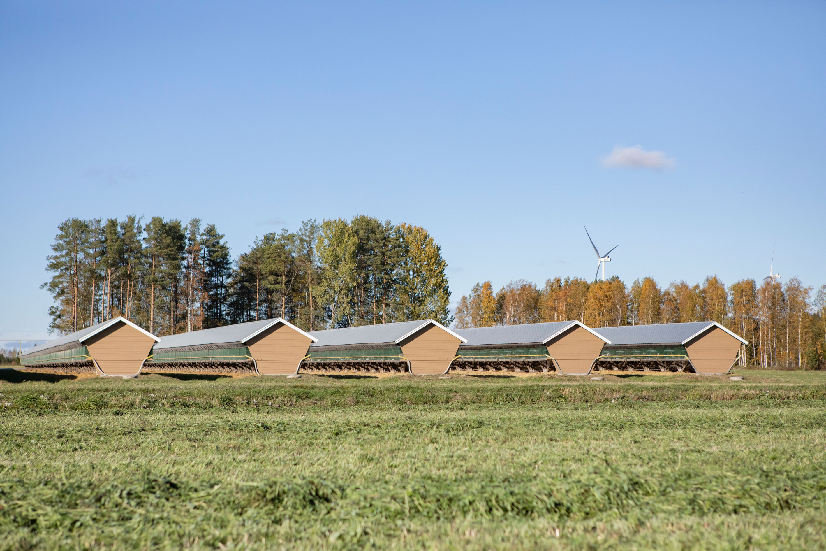 Fur farm in Ostrobothnia, Finland.